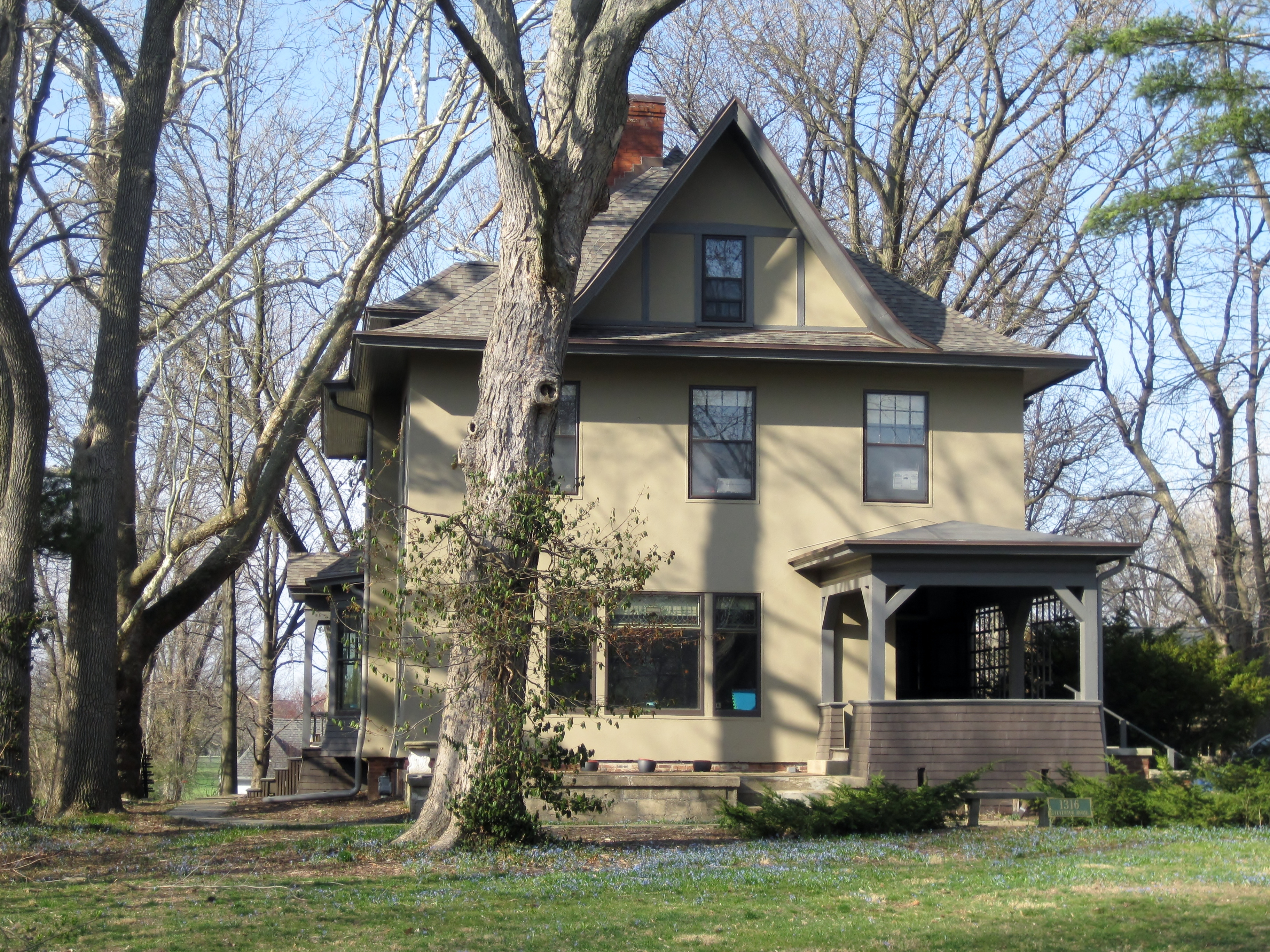 The Stevenson House in Bloomington (1900). It was the boyhood home of Adlai E. Stevenson II. Stevenson attended Bloomington High School and University High School. His father, Lewis Green Stevenson, was the Illinois Secretary of State from 1914-17. He married the granddaughter of Jesse W. Fell, a close friend of Abraham Lincoln and a founder of Illinois State University, thus enhancing the Stevenson family's political clout.